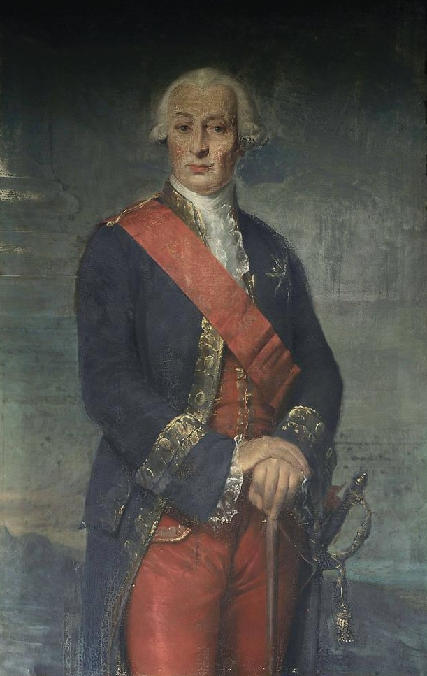 Portrait of Charles François de Virot de Sombreuil.